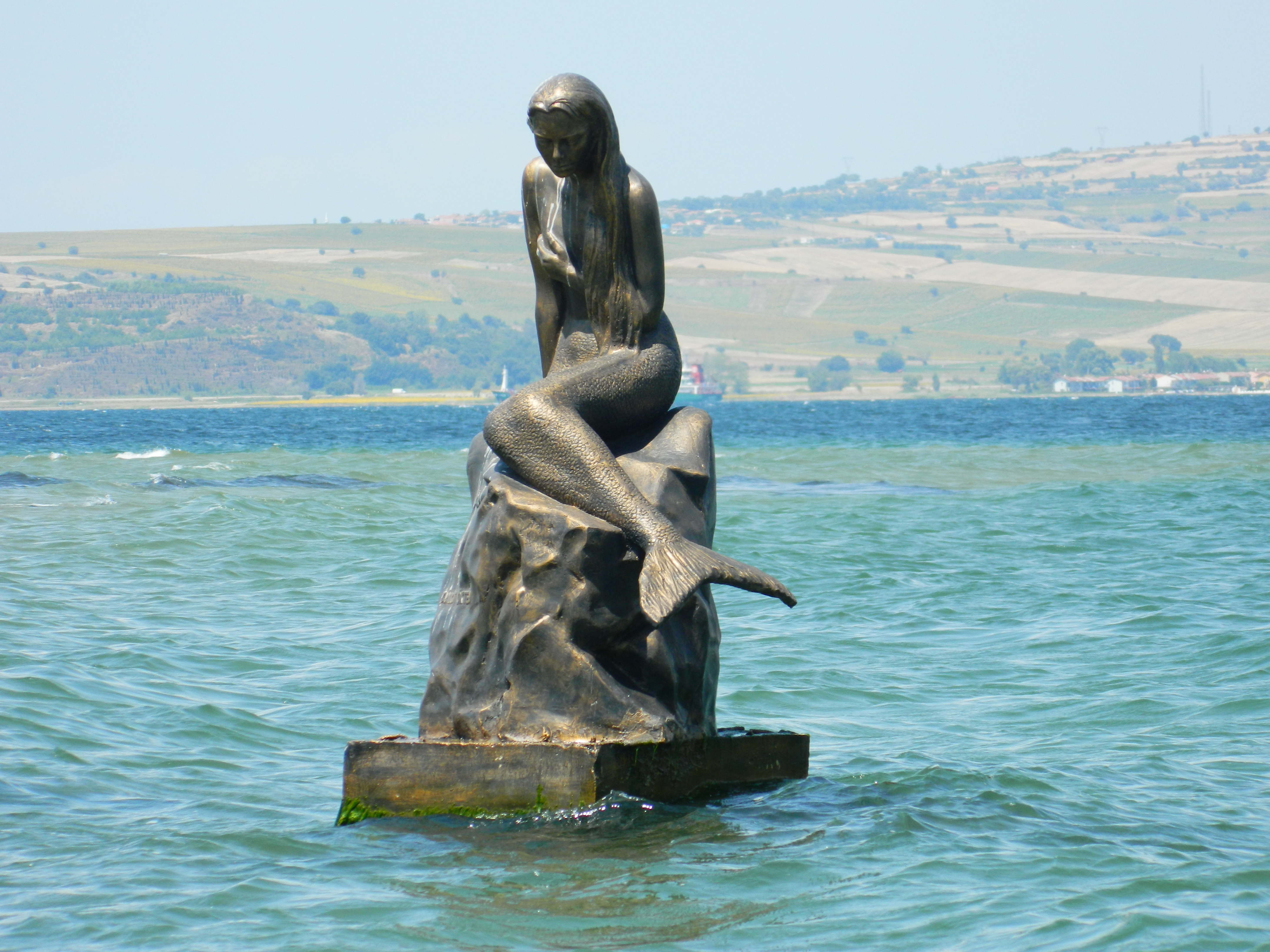 Lapseki Mermaid Statue